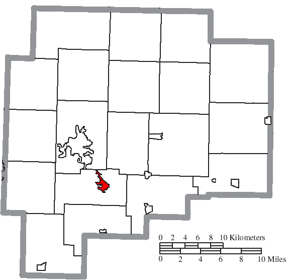 Map of the municipal and township boundaries of Guernsey County, Ohio, United States, as of the 2000 census, with the location of the village of Byesville highlighted. Township borders are shown only in unincorporated areas in order to differentiate incorporated and unincorporated areas more clearly.